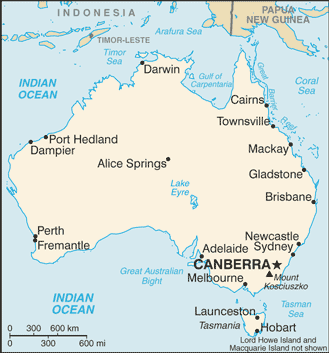 Australia map from CIA World Factbook, converted from original GIF format